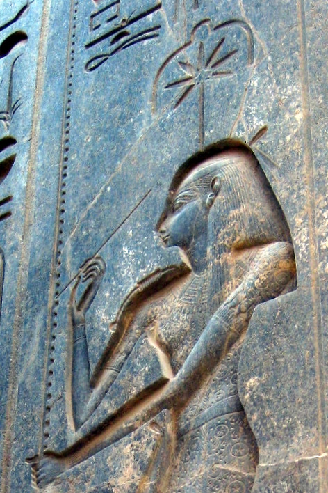 Seshat in Luxor, is something of a fave...